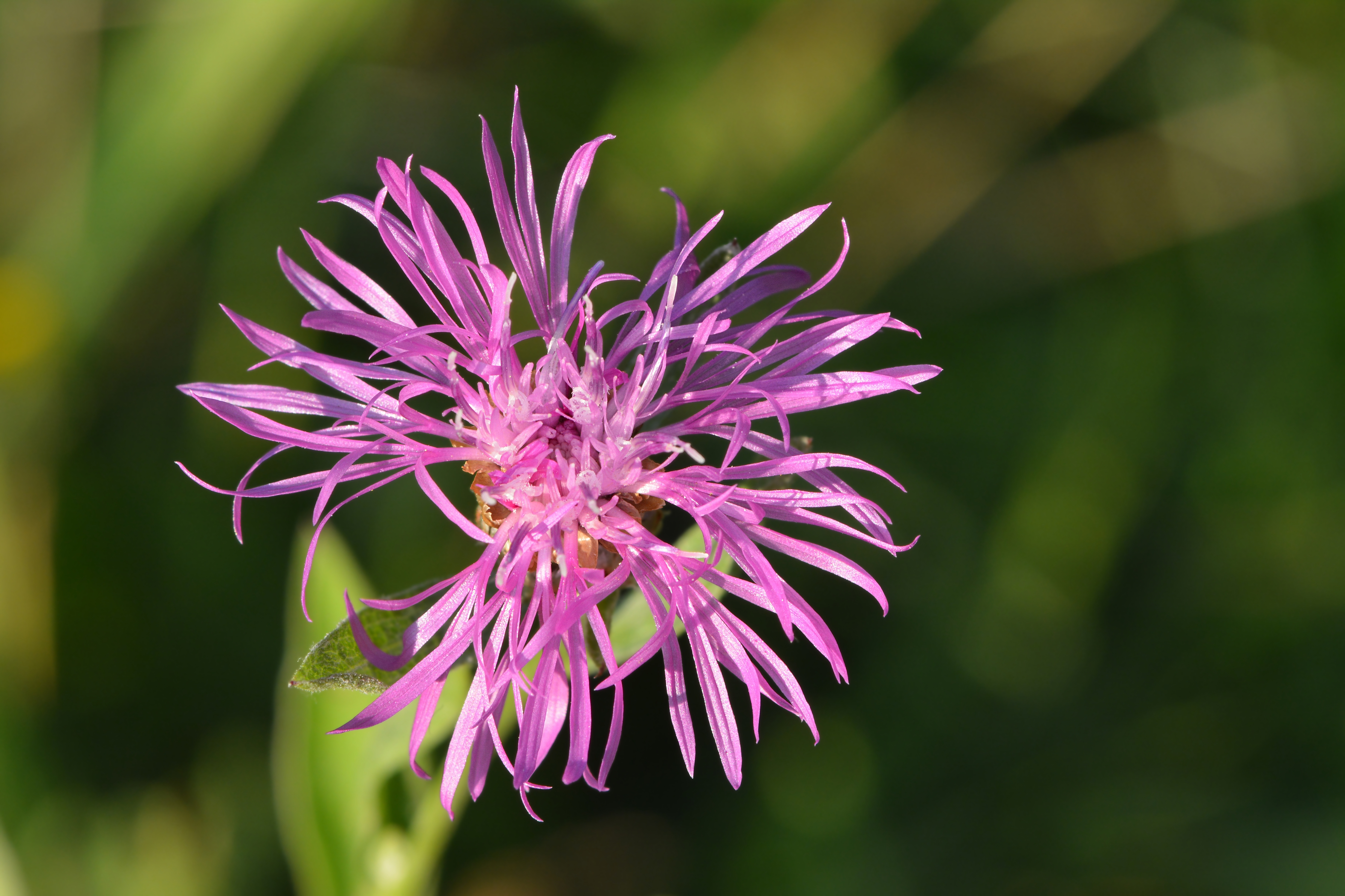 Brown Knapweed (Centaurea jacea). Wooded meadow, Northwestern Estonia.